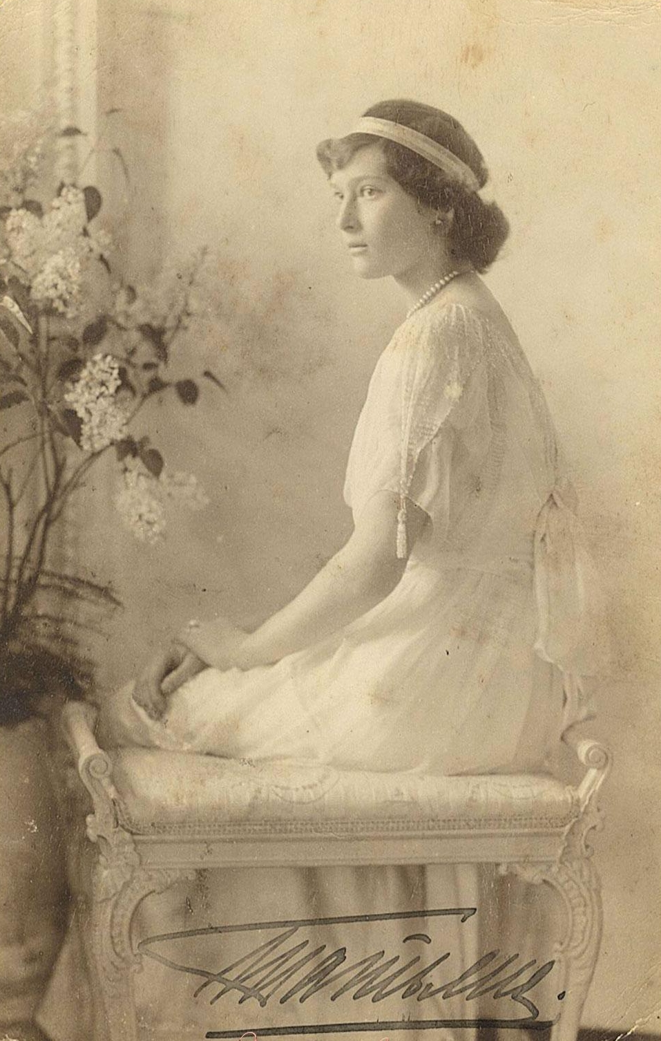 Tatiana Nikolaevna of Russia